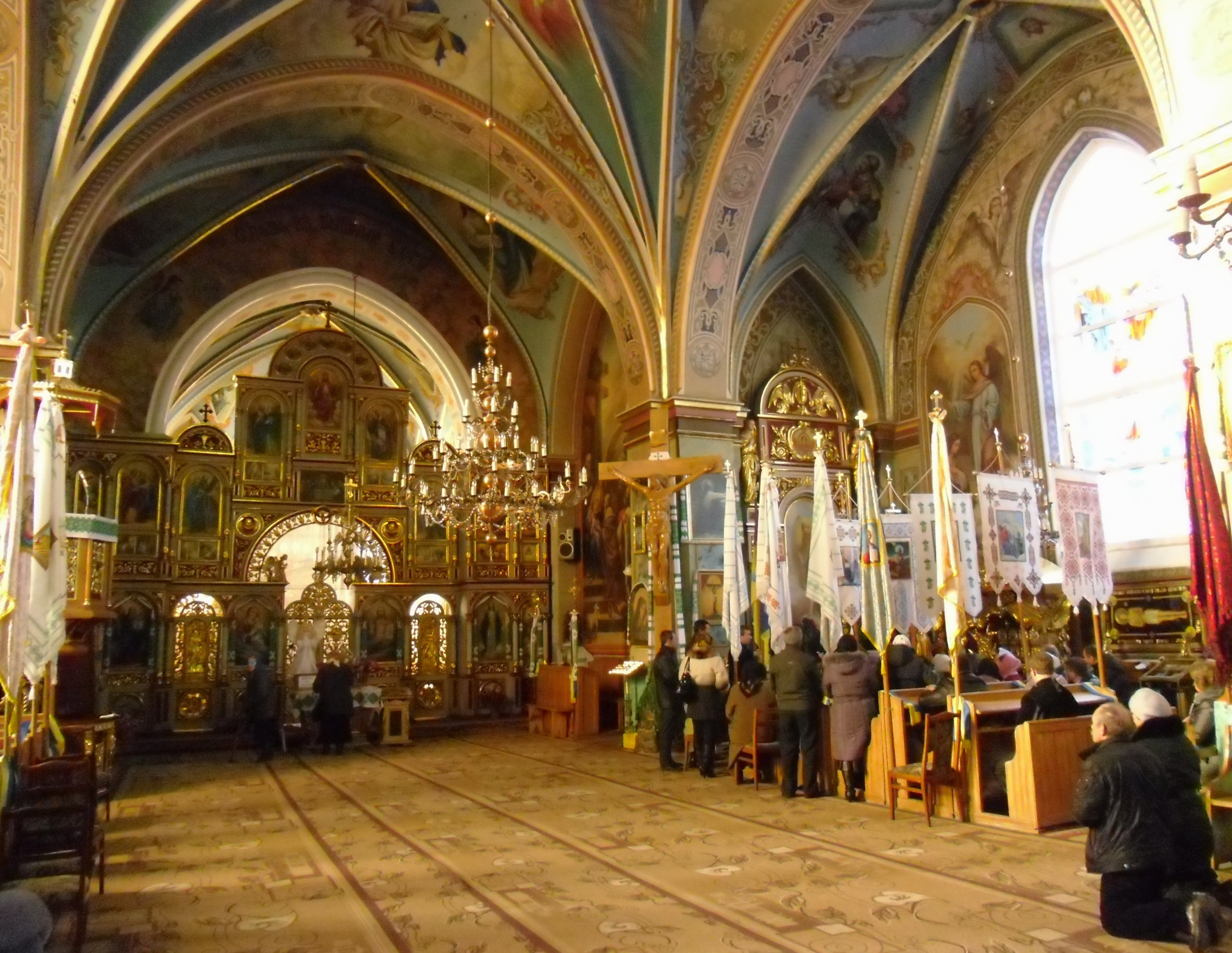 Interior of the church of St. Anna in Borislav. Lviv region.